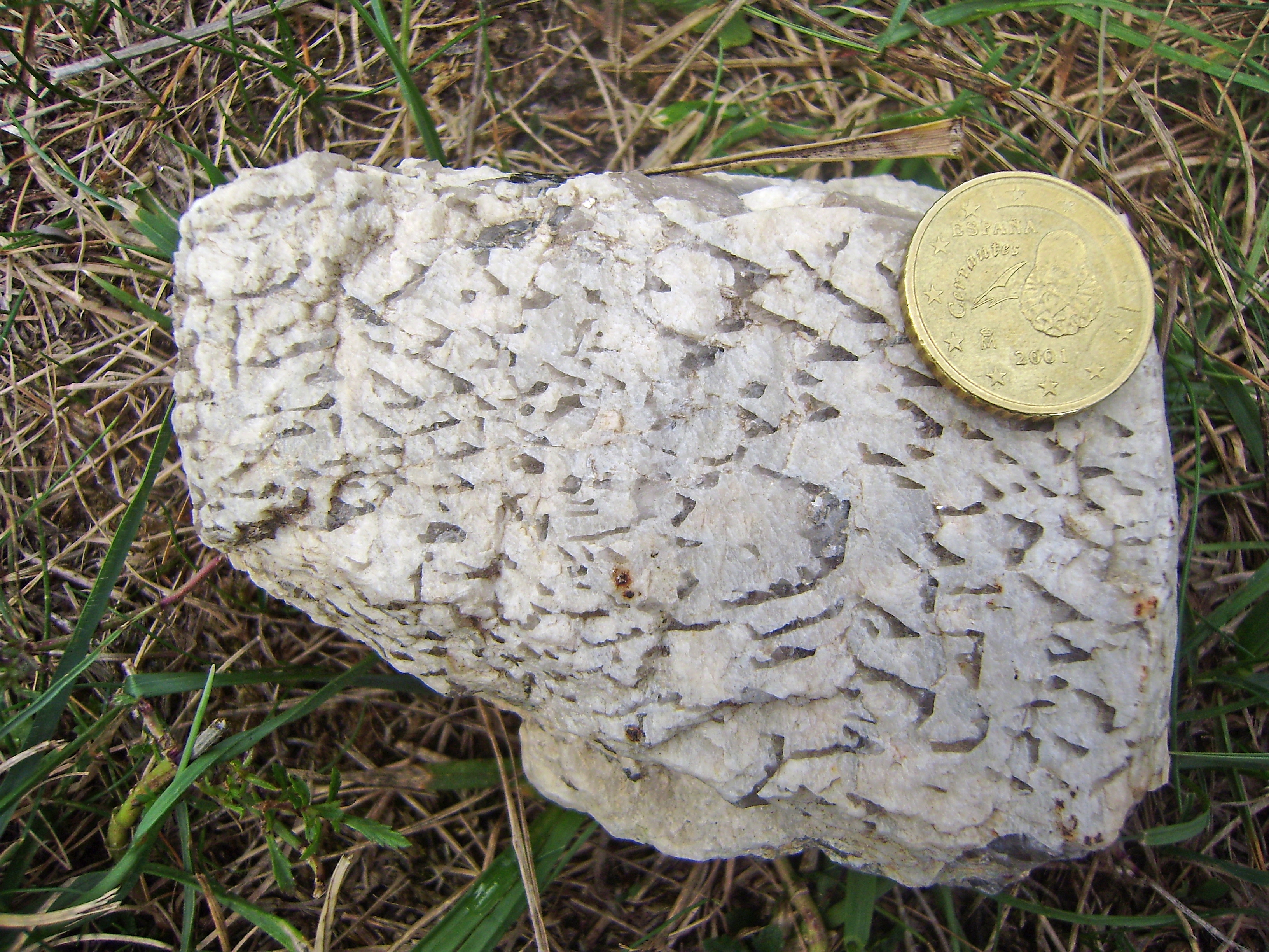 Runic pegmatite from the Saint-Mathieu leucogranite, Northwestern Massif Central France.